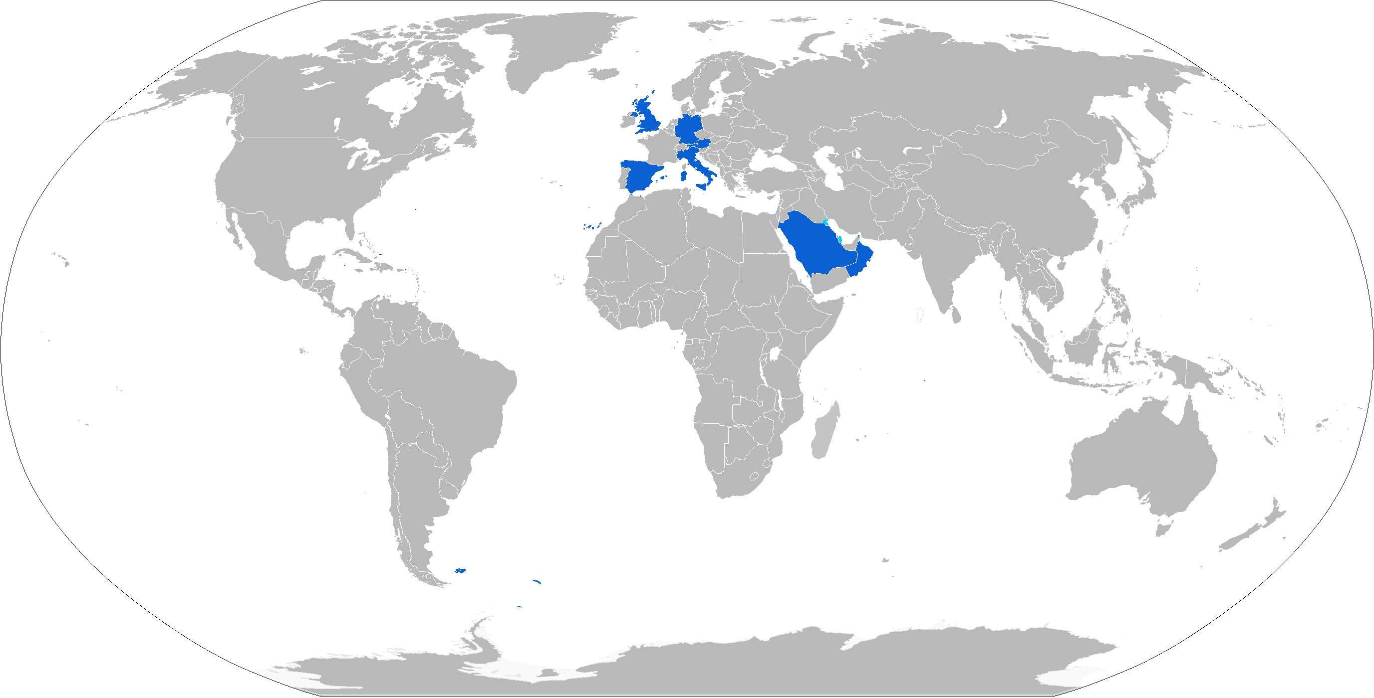 Eurofighter Typhoon operators in blue with orders in cyan.